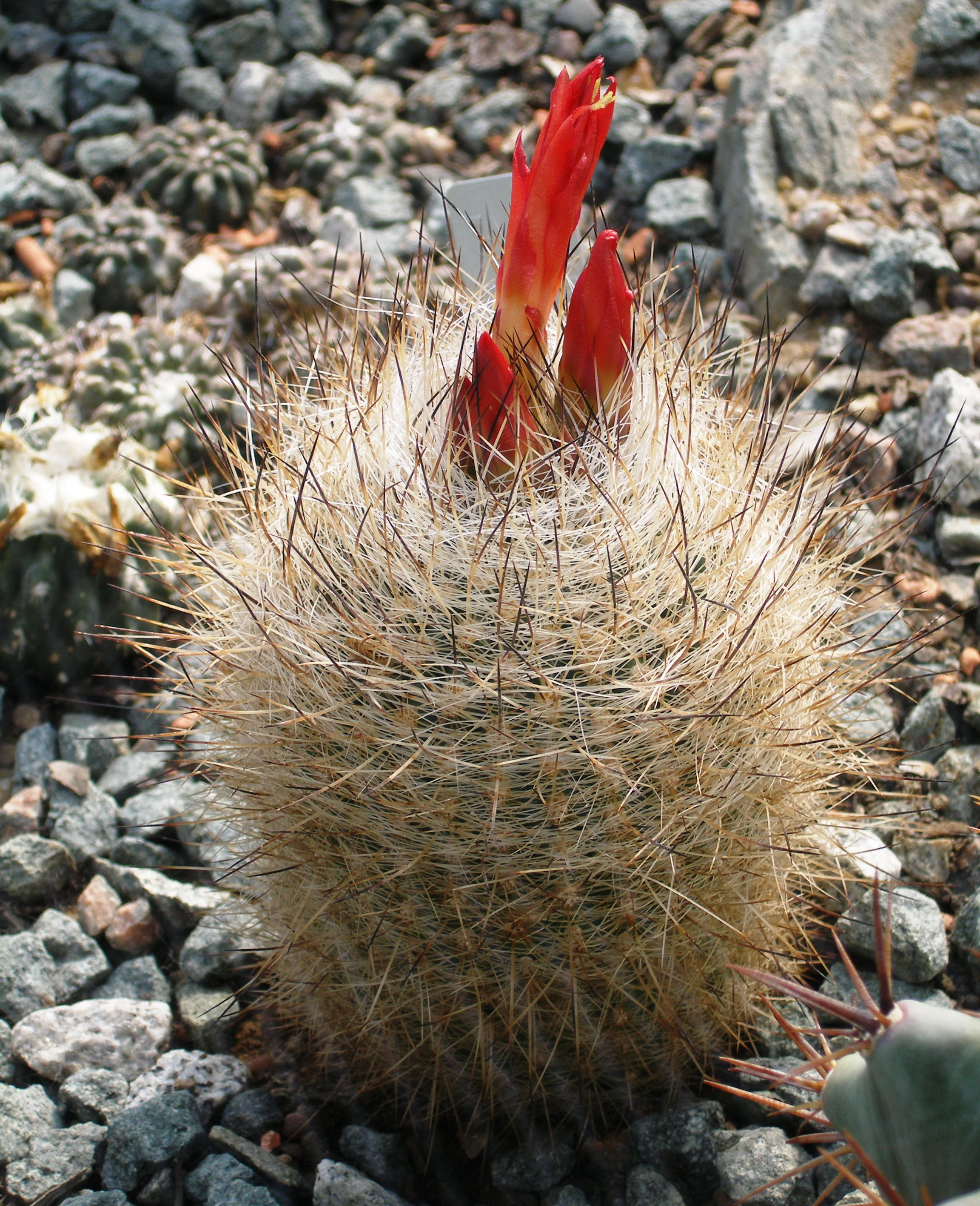 Specimen in cultivation at the Royal Botanic Gardens, Kew, United Kingdom.